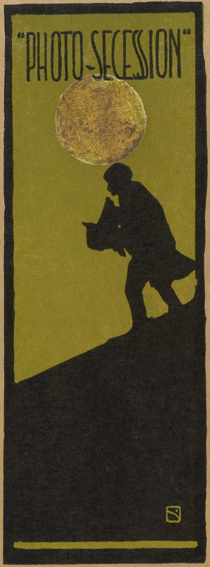 Photo Secession (1902)